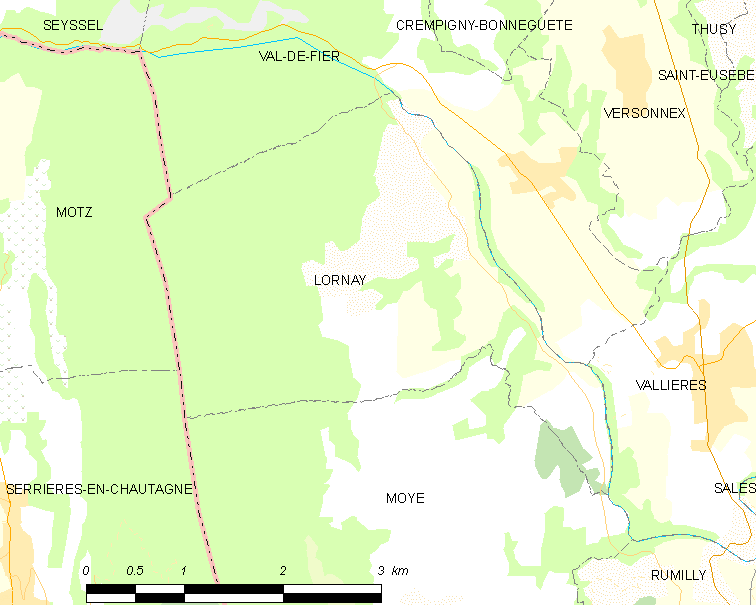 Map of French municipality Lornay